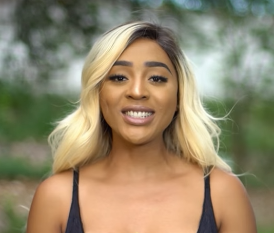 Screenshot from a preview video for MTV Shuga Down South in Feb 2019. See tile for detail